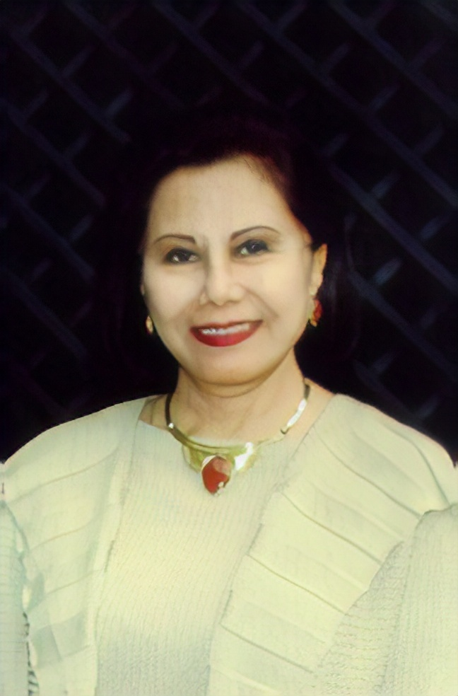 President Joseph "Erap" Ejercito Estrada, Argentine President Carlos Menem and First Lady Dr. Luisa "Loi" Ejercito Estrada pose for a souvenir photo Monday (Sept. 20, Argentina time) at the holding room garden in Alvear Palace Hotel in Buenos Aires. The President is in Argentina for a four-day state visit, the last leg of his 2-week economic mission to three countries. (Malacanang Photo)